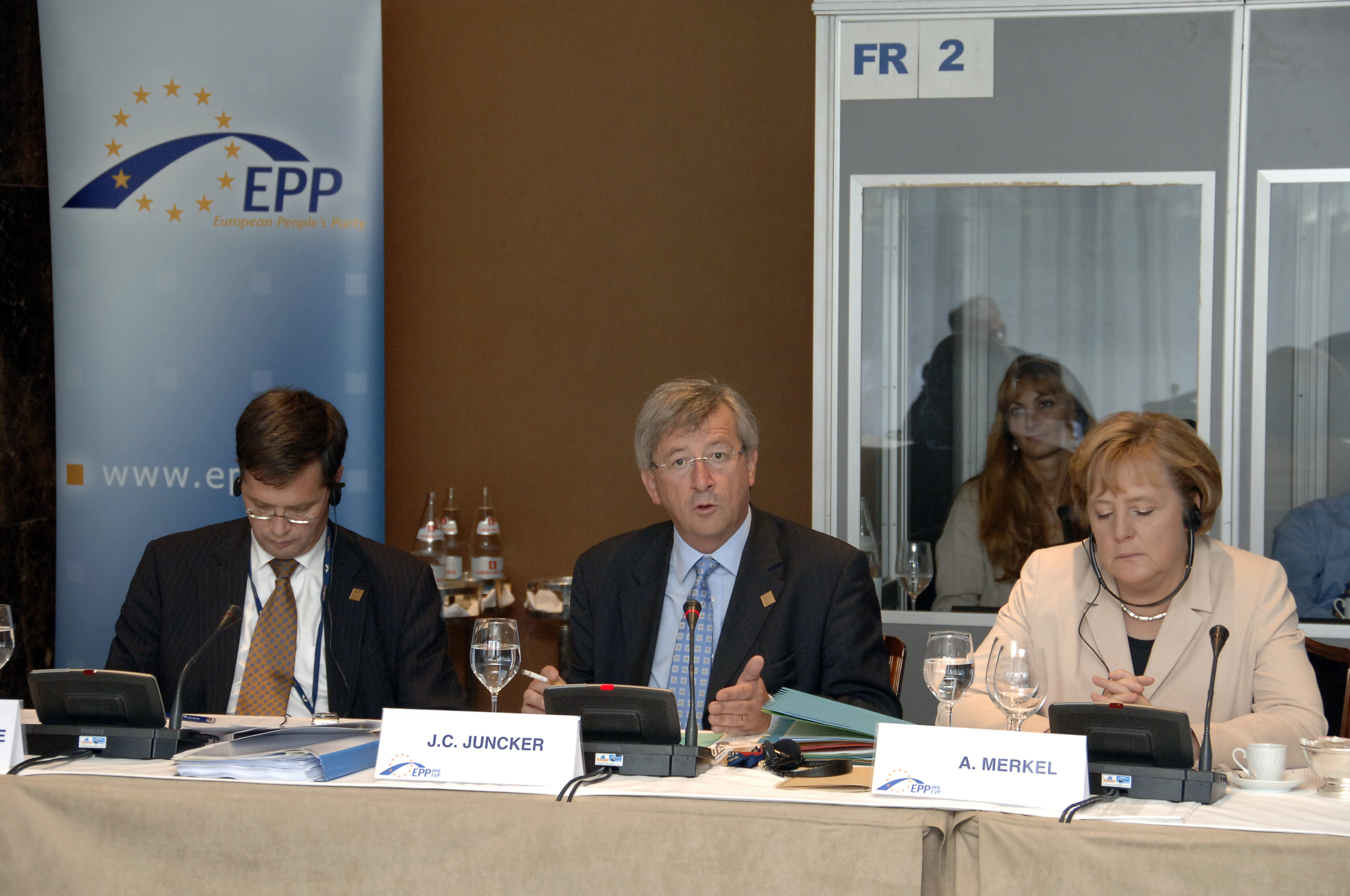 EPP Summit Lisbone 18 October 2007